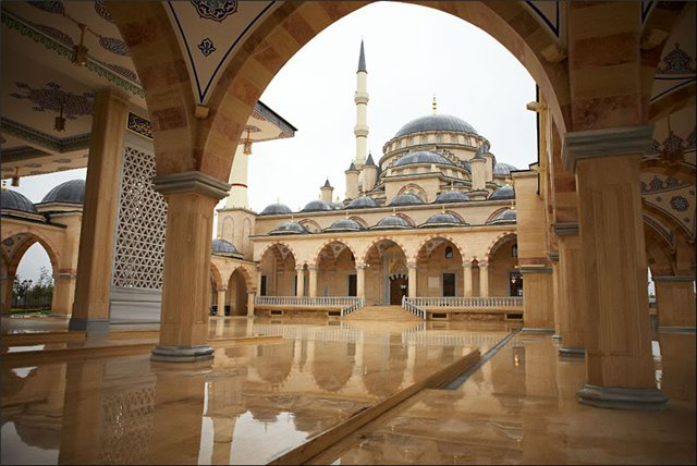 The heart of the Chechnya mosque.